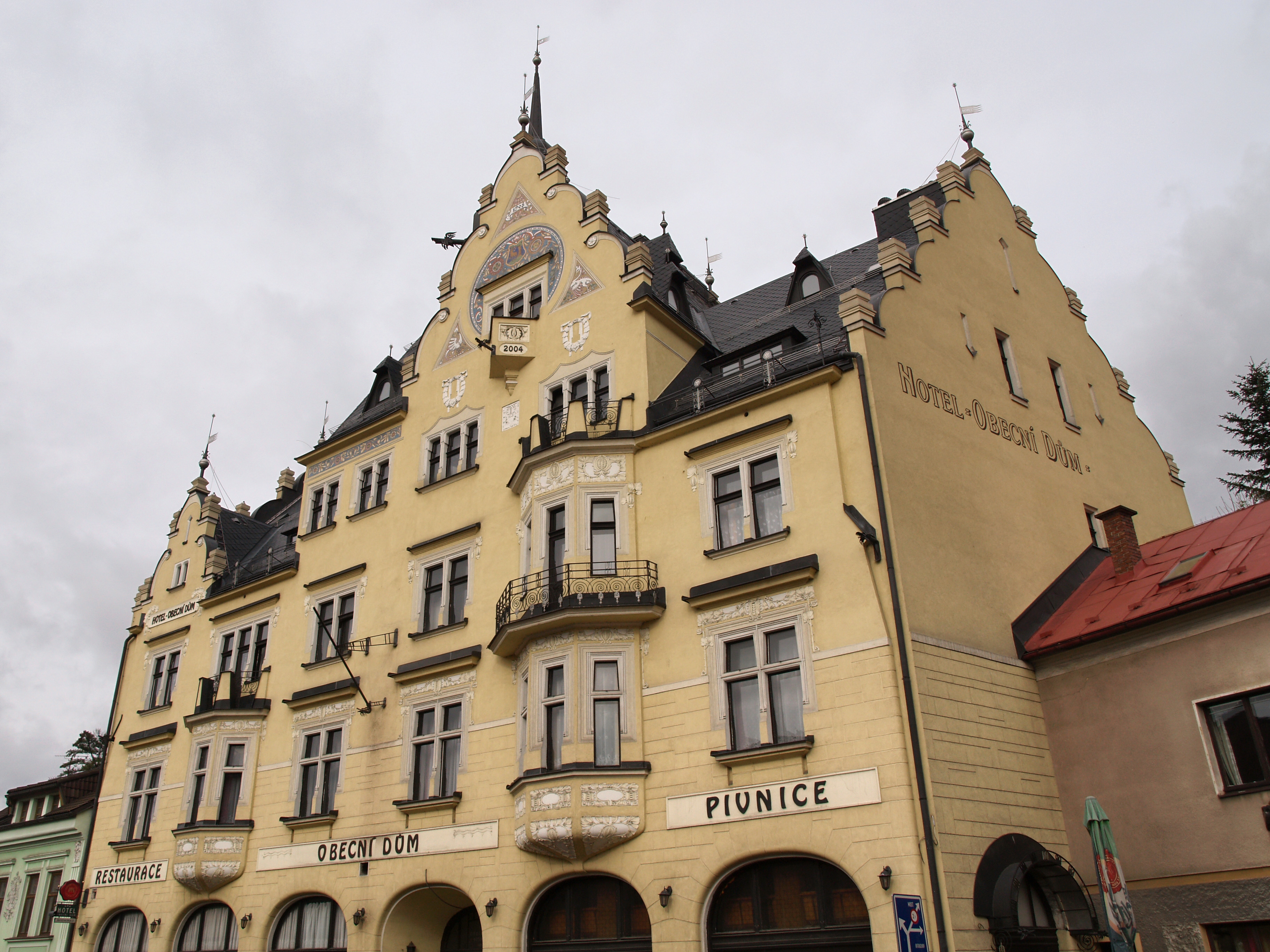 Czech town Semily—hotel “Obecní dům” (Communal house)